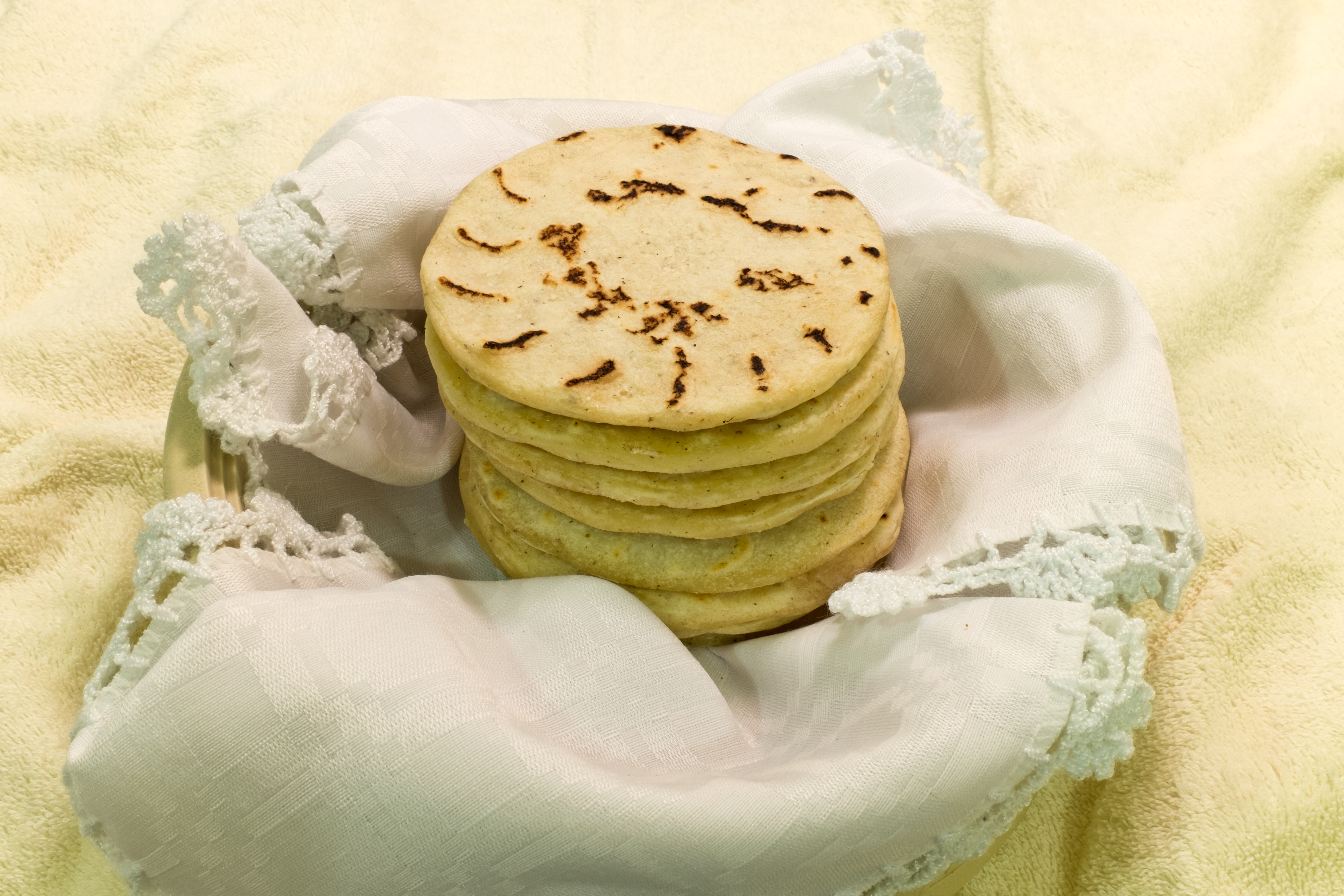 Salvadorean Tortillas (handmade). Note how pupusas look a lot like these tortillas (they are similar in size), but tortillas do not have a filling, the burn marks are different (note the circular burn mark), and usually are thinner.